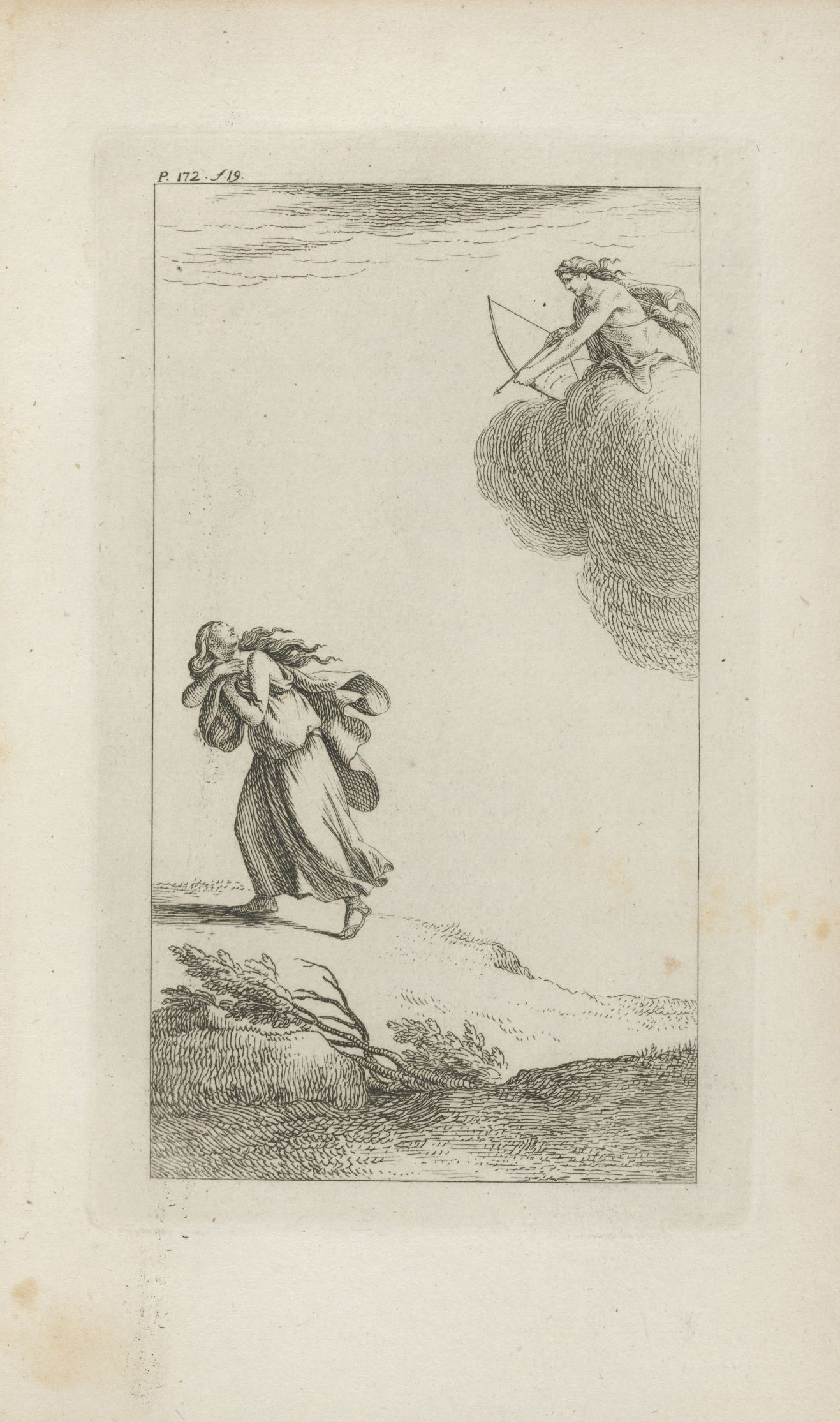 Illustration from Ideen zu einer Mimik by J.J. Engel. Published in Berlin: Auf Kosten des Verfassers und in Commission bey August Mylius, 1785-1786. Typ 720.85.363, Houghton Library, Harvard University